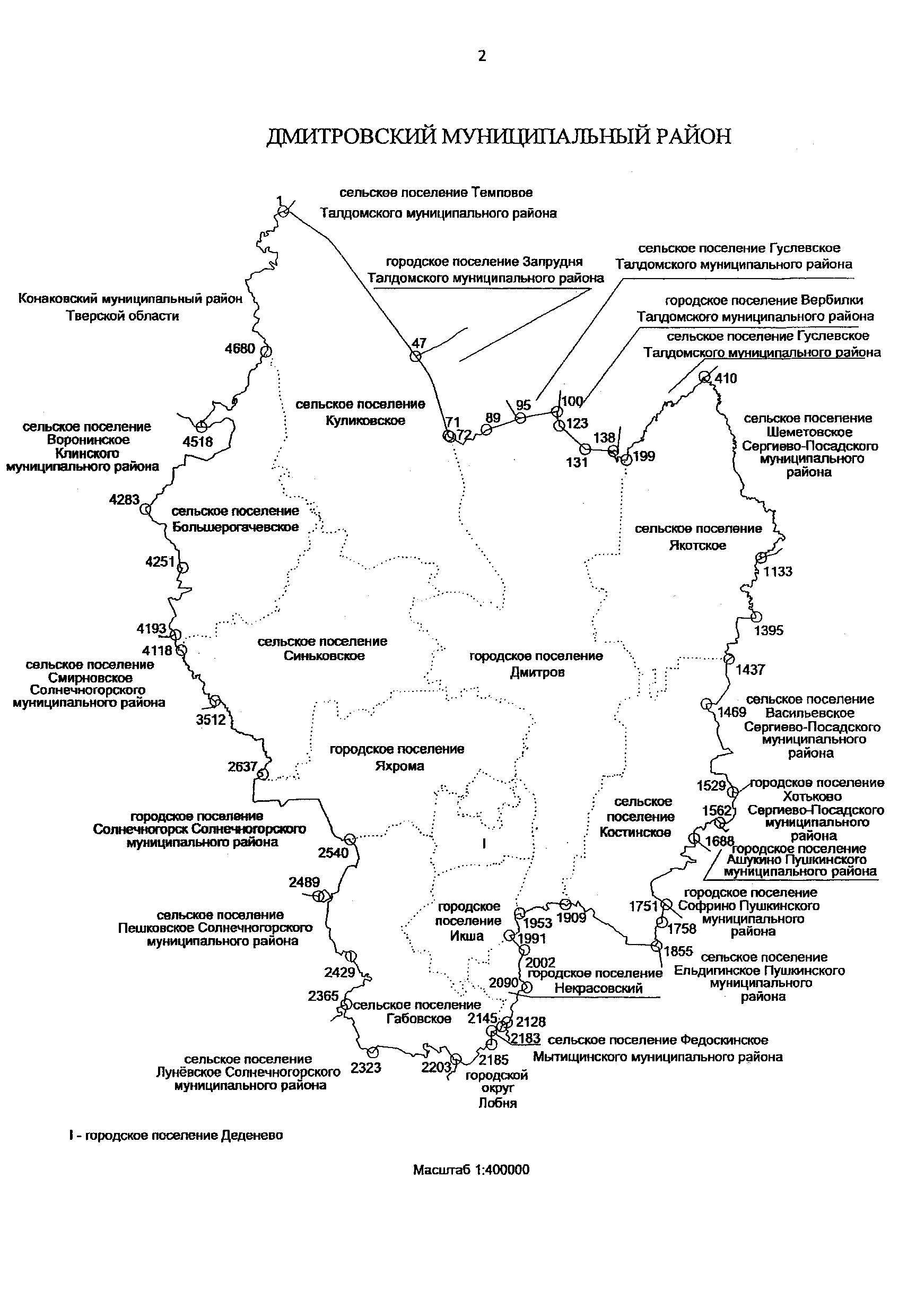 Map of Dmitrovsky district as of 2011